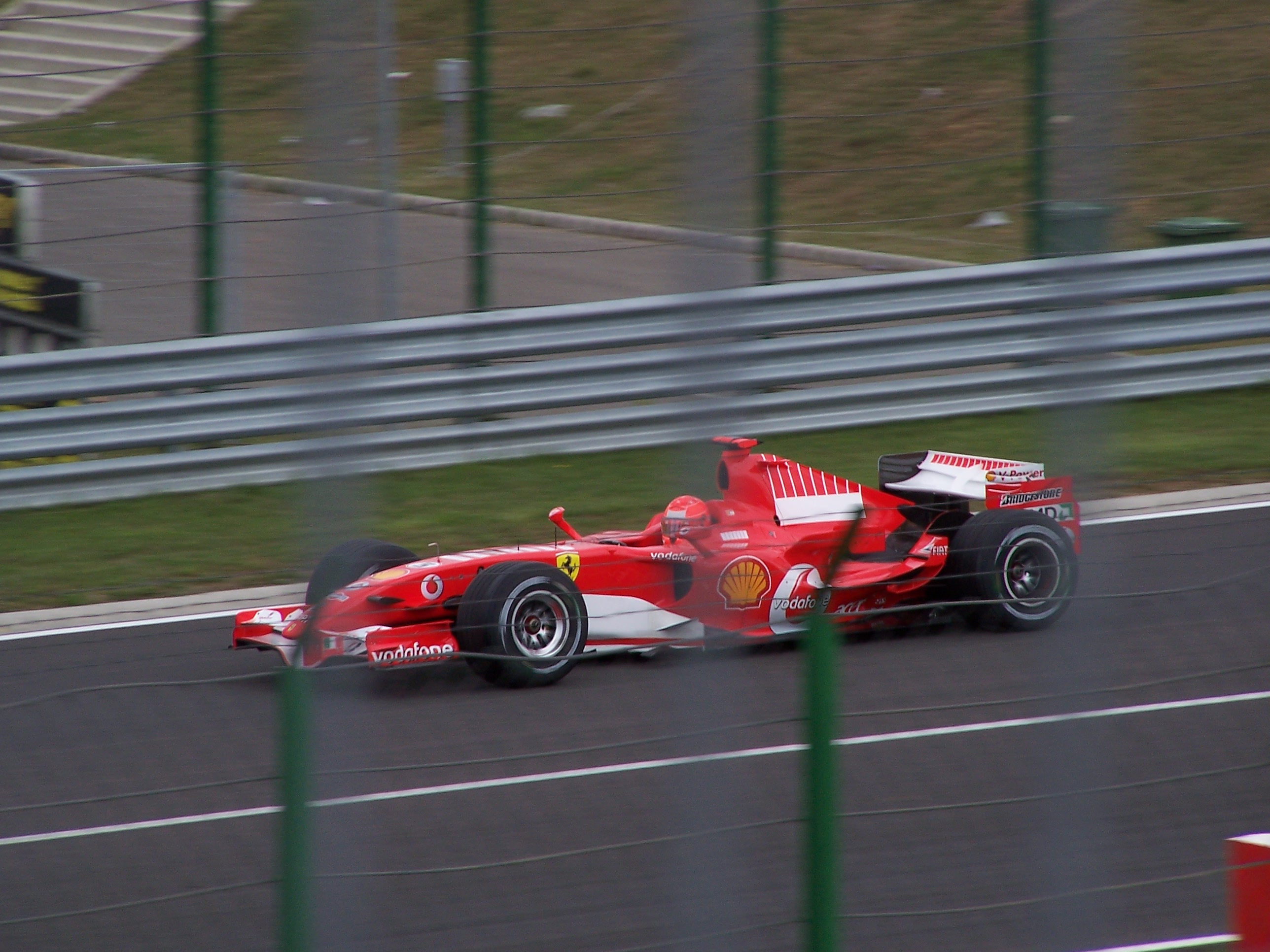 Michael Schumacher during qualify session - Hungarian GP 2006, Hungaroring